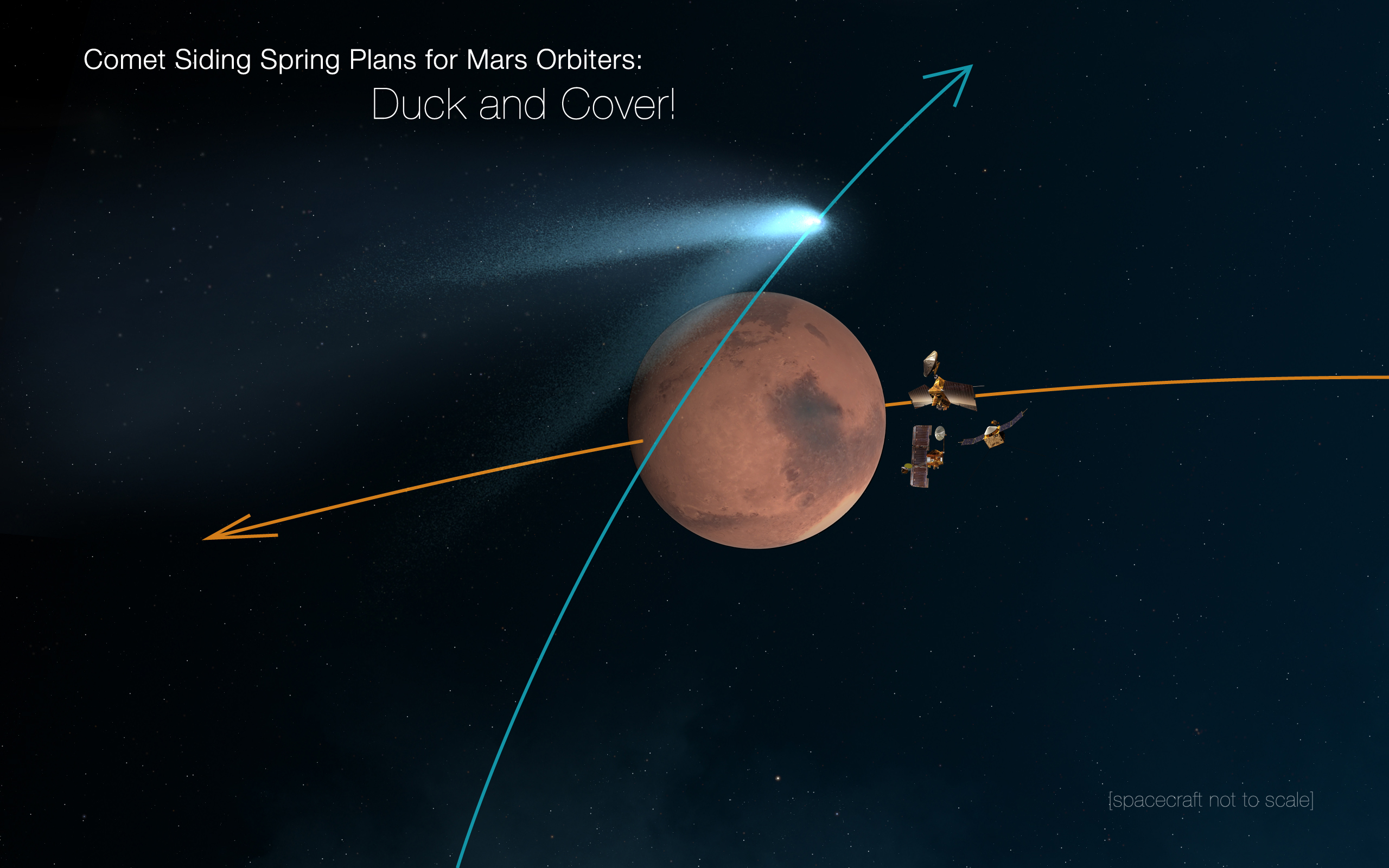 Mars Orbiters 'Duck and Cover' for Comet Siding Spring Flyby (Artist's Concept) October 9, 2014 This artist's concept shows NASA's Mars orbiters lining up behind the Red Planet for their "duck and cover" maneuver to shield them from comet dust that may result from the close flyby of comet Siding Spring (C/2013 A1) on Oct. 19, 2014. The comet's nucleus will miss Mars by about 87,000 miles (139,500 kilometers), shedding material as it hurtles by at about 126,000 miles per hour miles (56 kilometers per second), relative to Mars and Mars-orbiting spacecraft. NASA is taking steps to protect its Mars orbiters, while preserving opportunities to gather valuable scientific data. The NASA orbiters at Mars are Mars Reconnaissance Orbiter, Mars Odyssey and MAVEN. JPL, a division of the California Institute of Technology, Pasadena, manages the NASA's Mars Exploration Program for NASA's Science Mission Directorate, Washington. For more information about the flyby of Mars by comet Siding Spring, visit For more about the Mars Exploration Program, visit